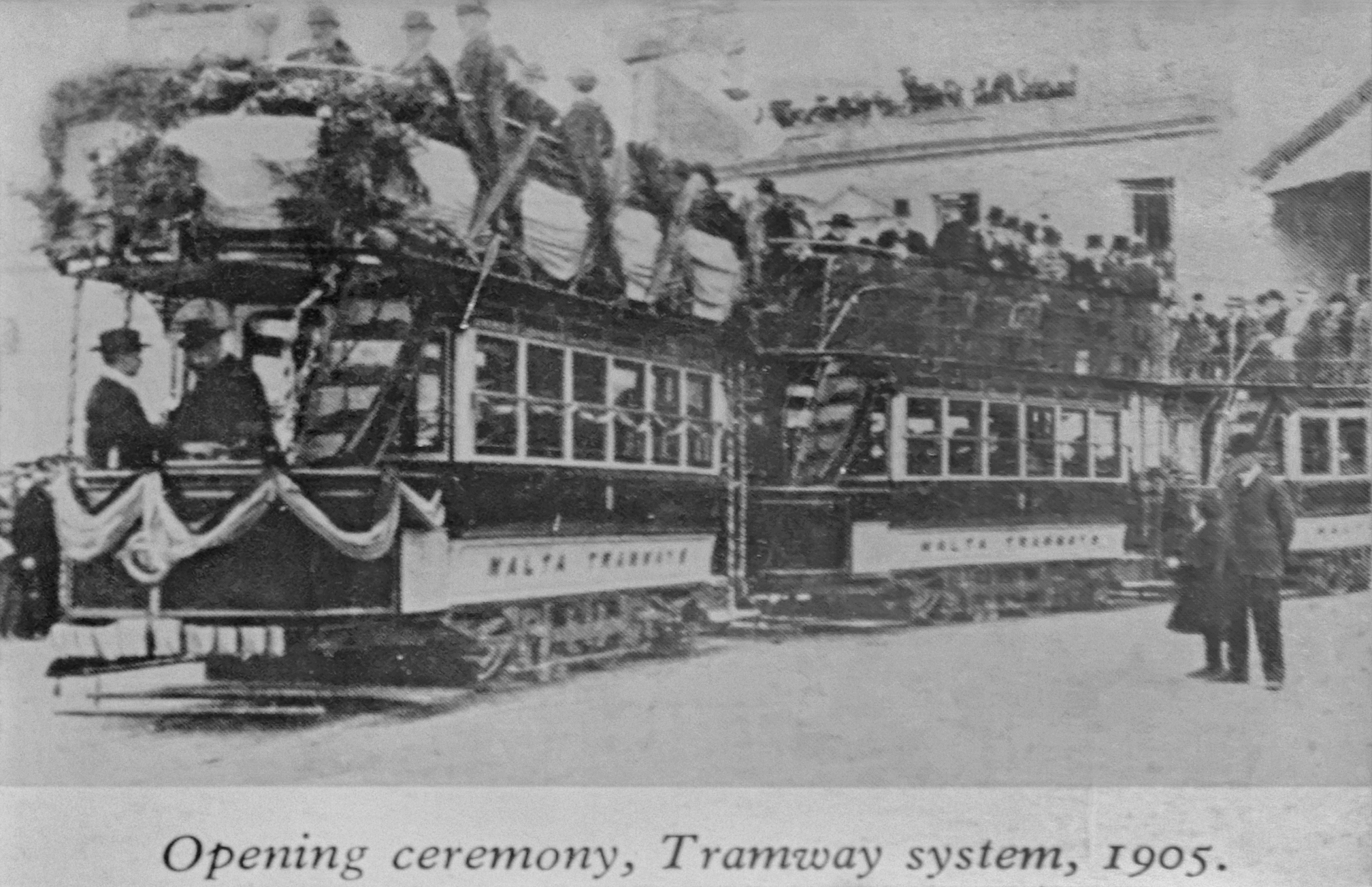 Opening ceremony for a tram in Malta in 1905